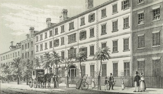 New York, Alexander Macomb House, second Presidential Mansion of the USA from February to August 1790. This engraving was made in 1831, when the Mansion was used as an hotel, the Bunker's Mansion House Hotel.